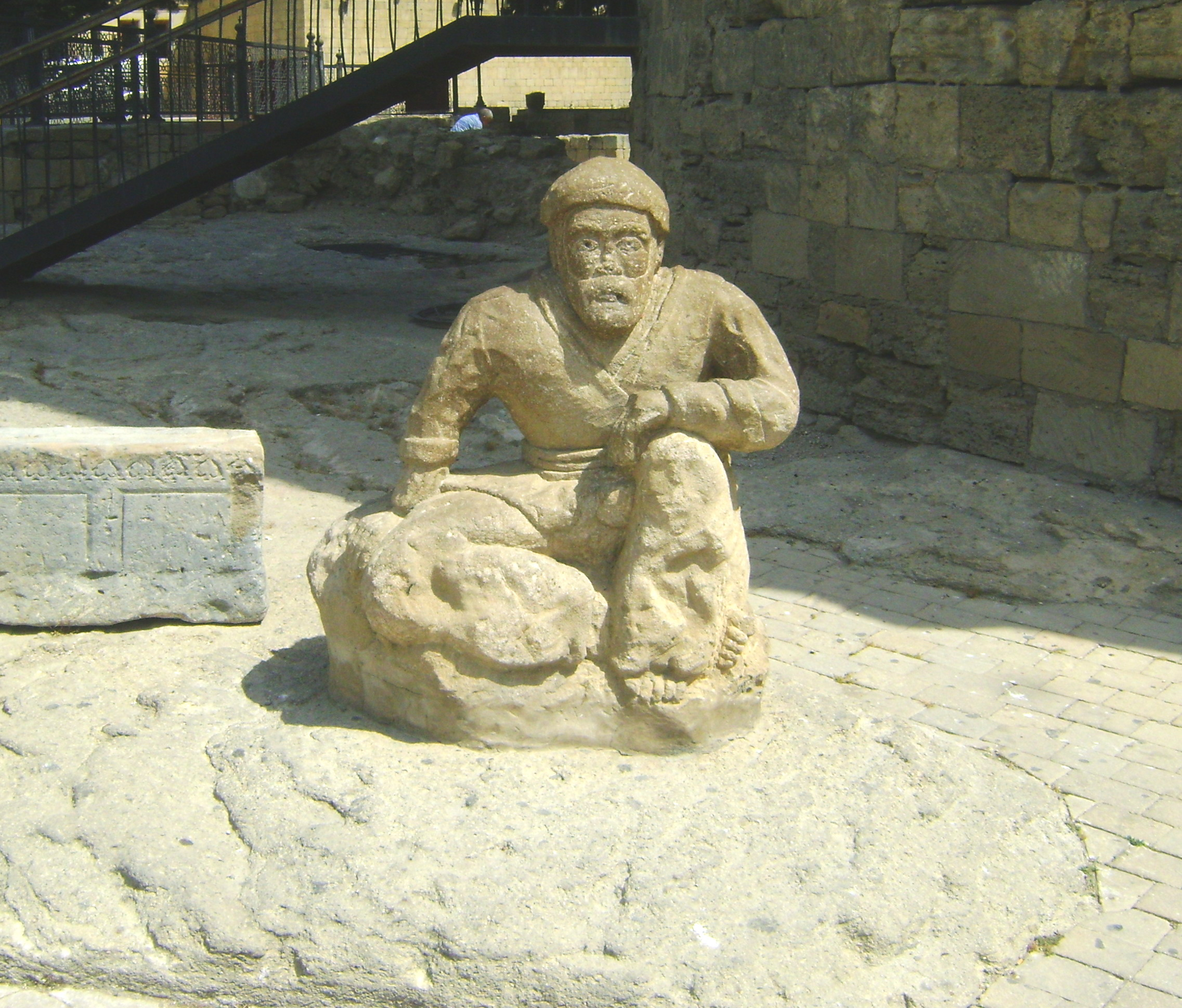 stone_figure_maidens_tower_baku - by Masud Bin Davud 12th century